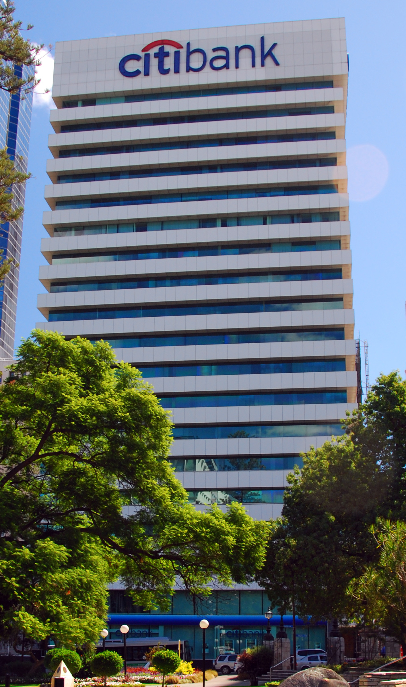 Citibank House, a skyscraper in Perth, Western Australia, formerly known as the "T&G Building".